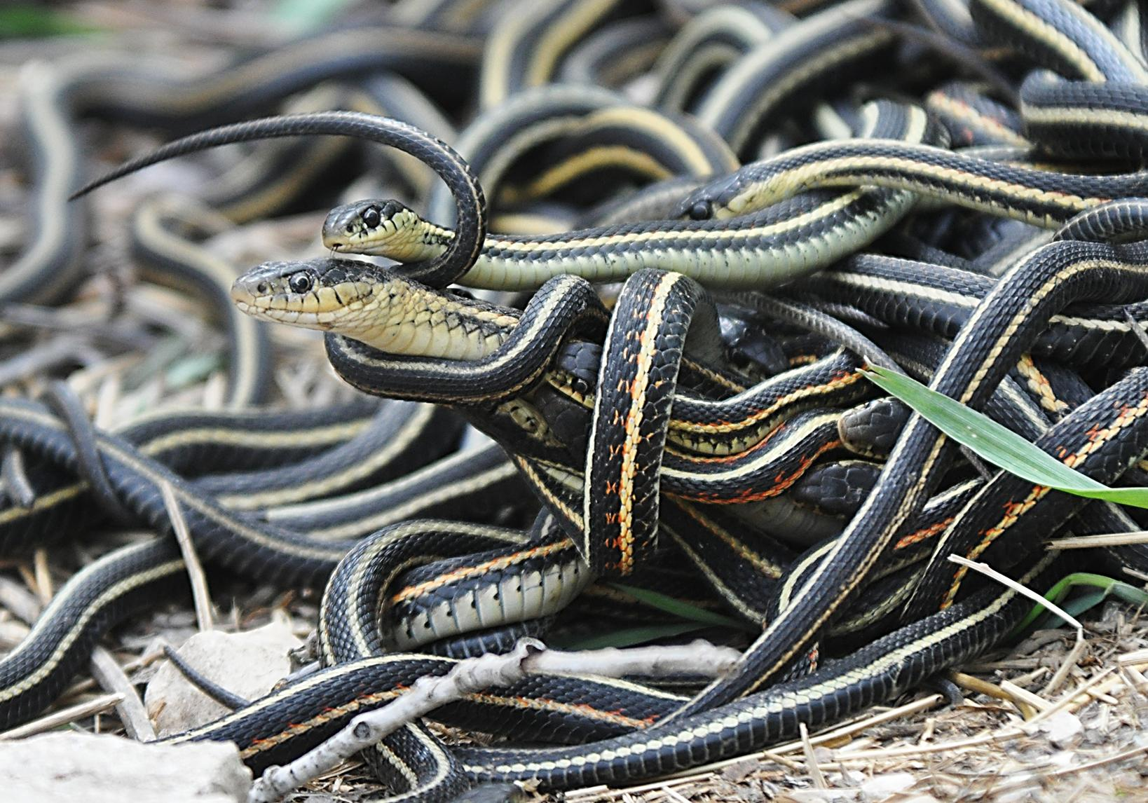 This female garter snake is entwined in a "mating ball," being sought by numerous other male snakes. (Photo by Chris Friesen, courtesy of Oregon State University)